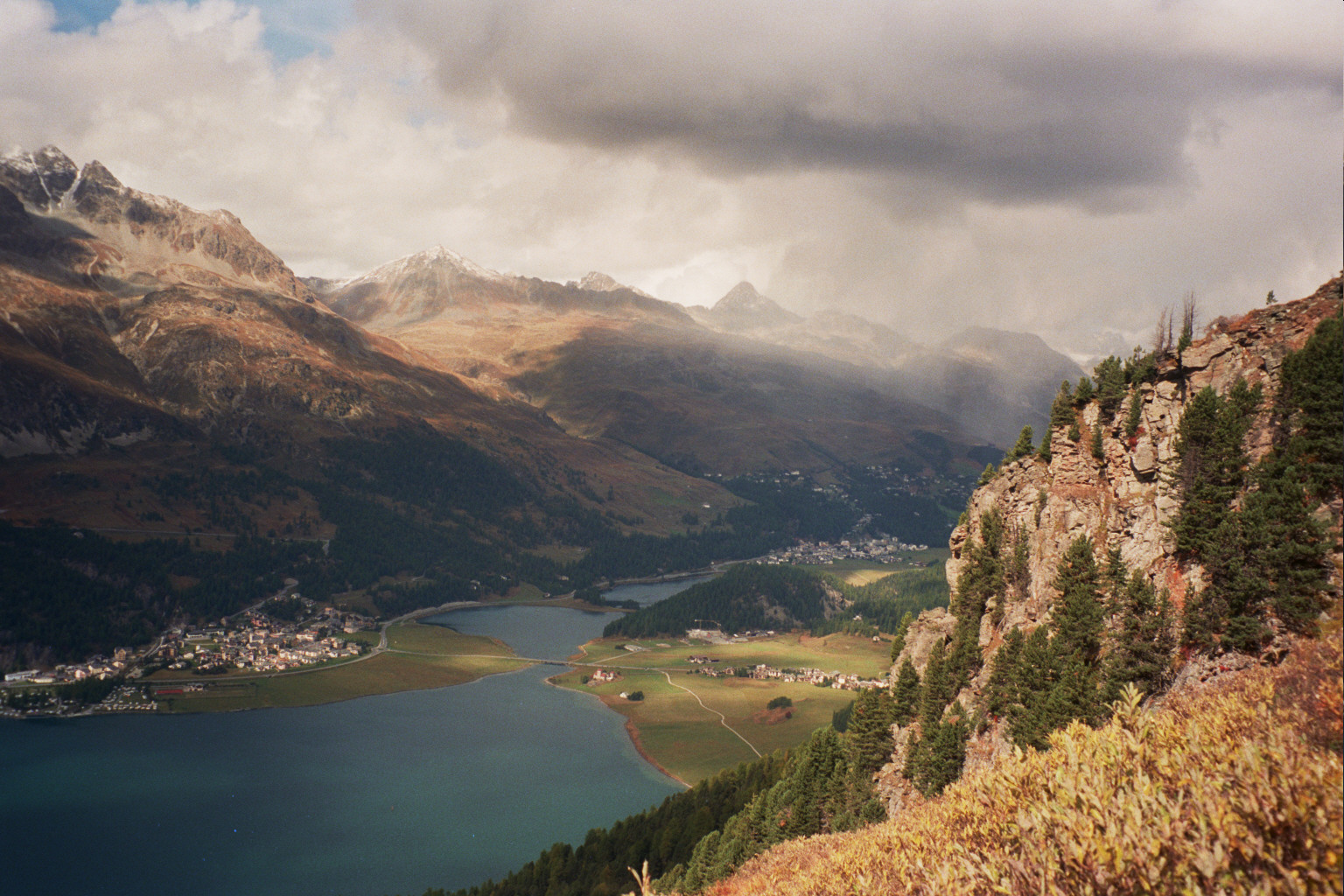 Oberengadin